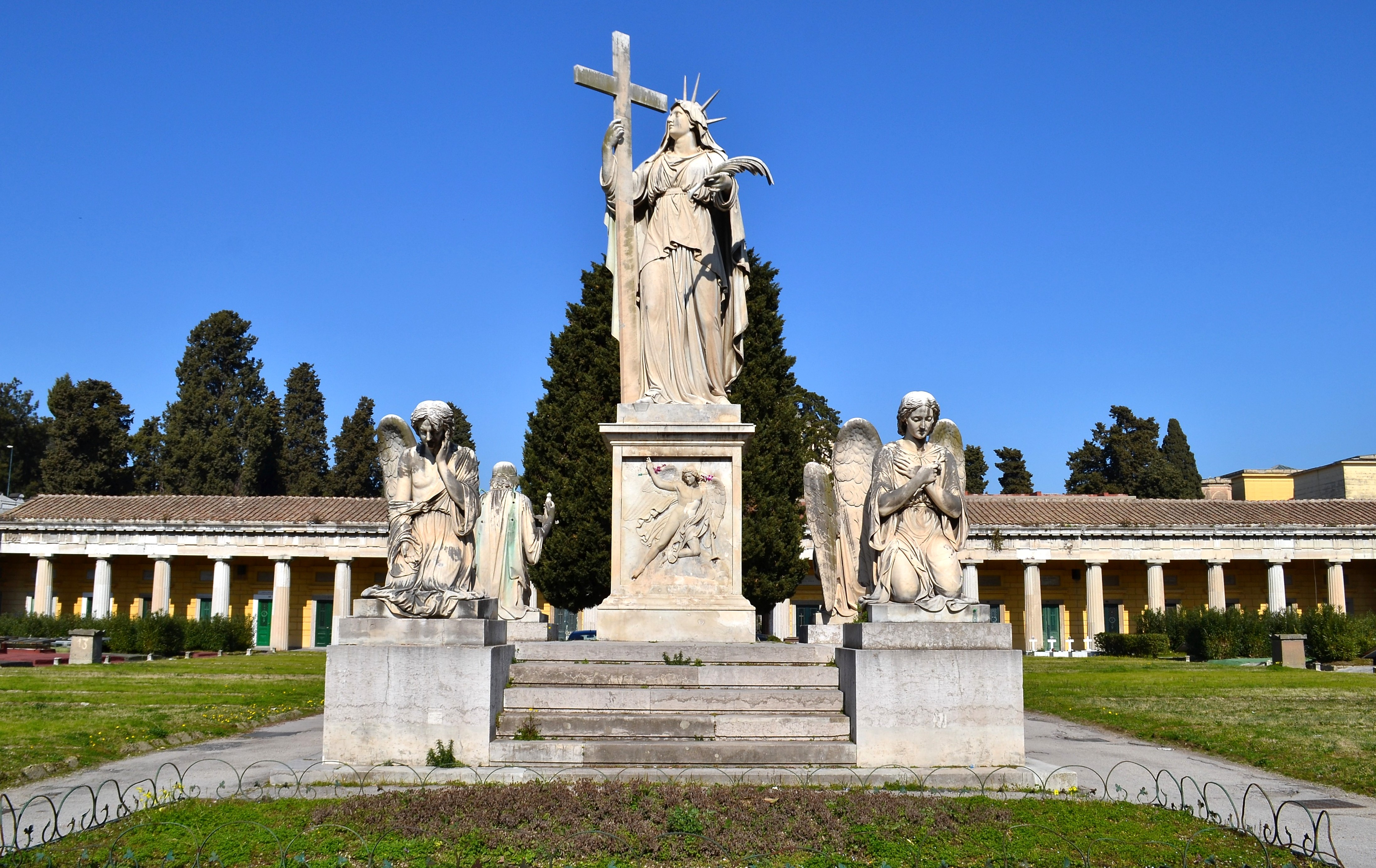 Sculptural group "The Religion" Tito Angelini, executed in 1836 and inaugurated in 1845.